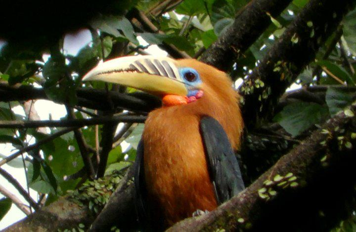 Aceros nipalensis, clicked in Namdapha National Park , Arunachal Pradesh,India